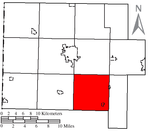 Made by the US Census and modified by myself